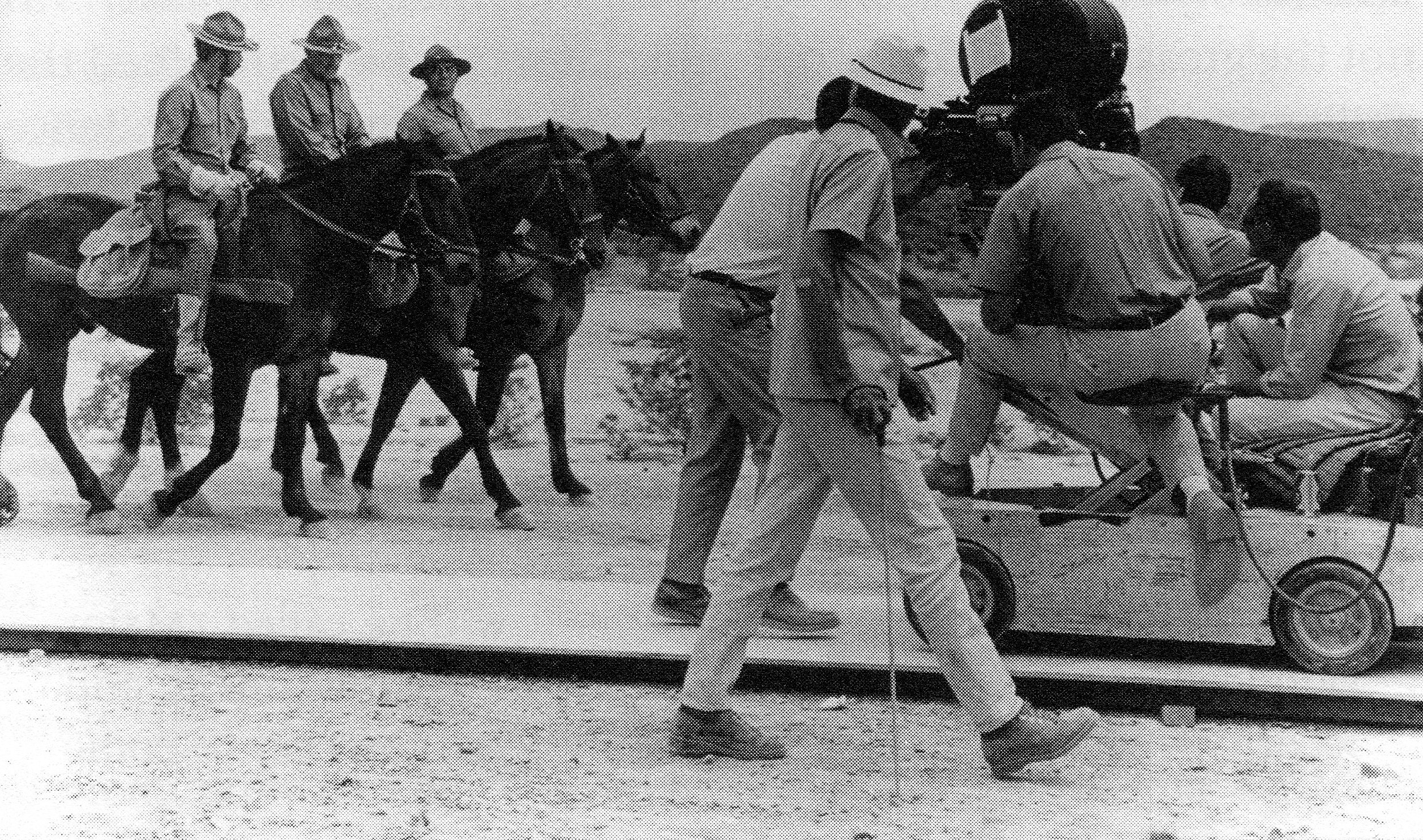 Production still for the film The Wild Bunch. The photograph was taken on-set by the studio, most likely for publicity purposes. Such images were then disseminated to the media and the public to promote the film (see Film still). It is definitely not a screenshot as an exact image like this never appears in the film. Since the image was published prior to 1977, under the terms of the 1909 Copyright Act (which was law until 1978), any copyright that may have been secured for the photograph would have had to be renewed 28 years after publication. The copyright for this image would therefore have had to be renewed in 1996. A search with The United States Copyright Office for "The Wild Bunch" finds no trace that this occurred.